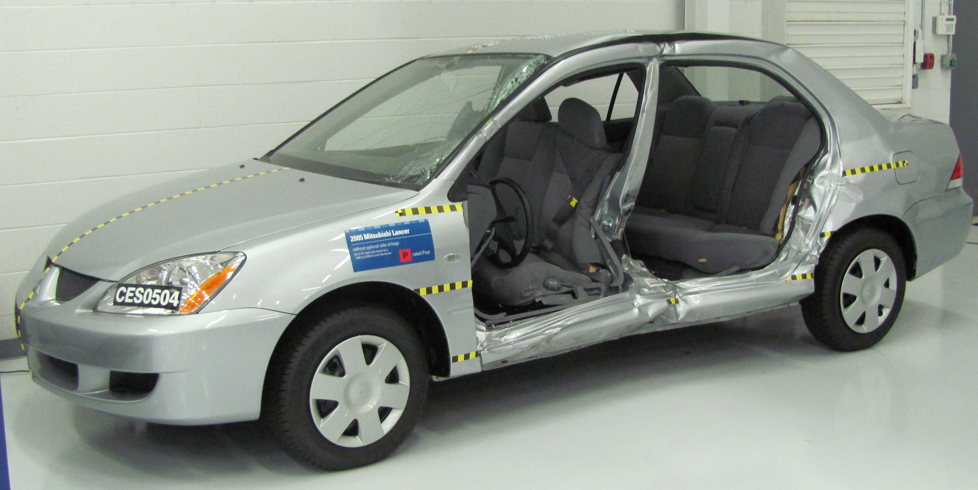 Crash-tested 2005 Mitsubishi Lancer photographed at the Insurance Institute for Highway Safety Vehicle Research Center. IIHS crash test page